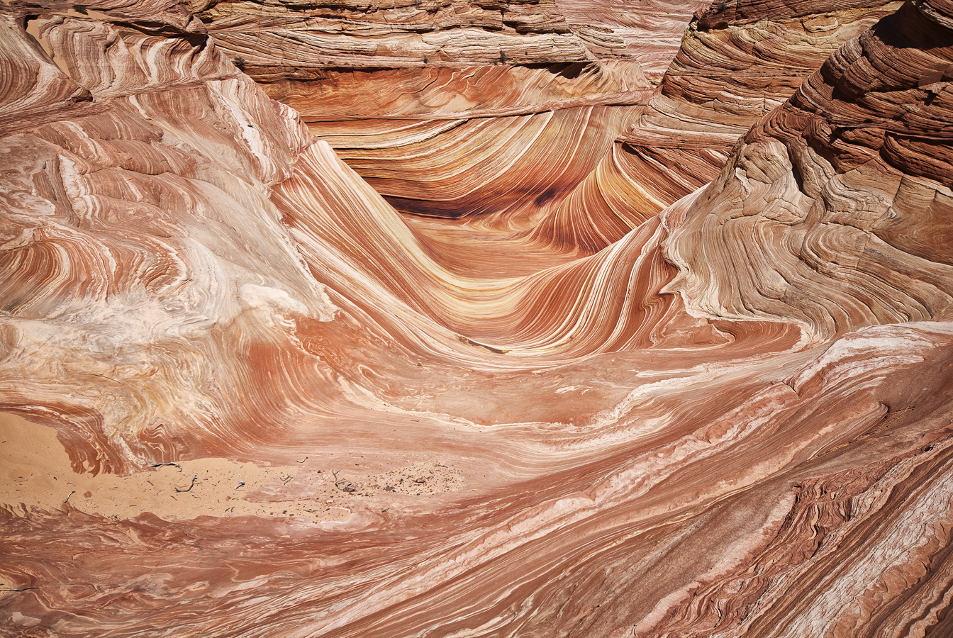 Another shot from May 2009.